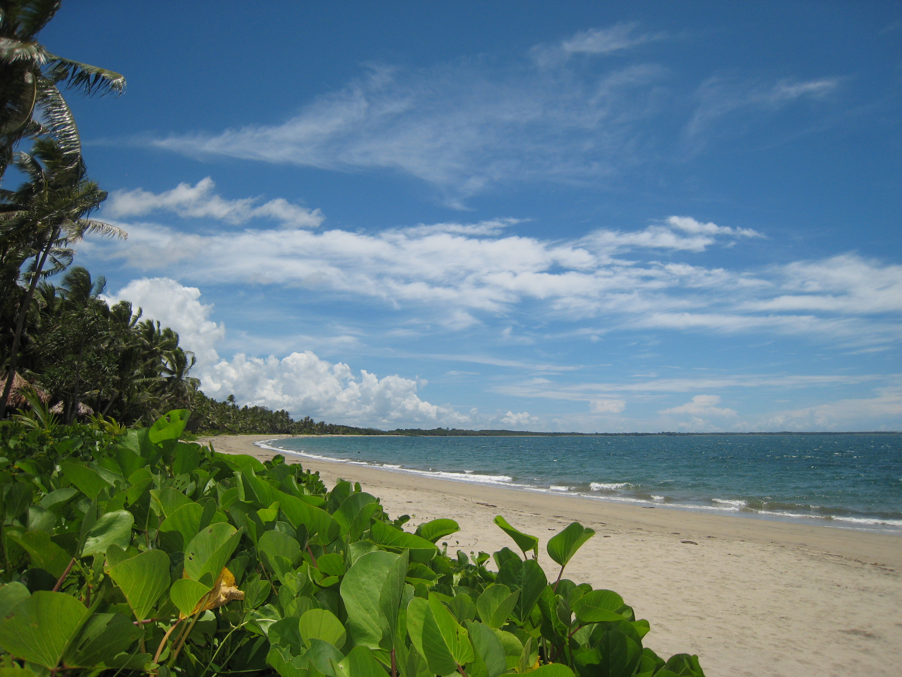 Beach at The Pearl, Pacific Harbour, Fiji